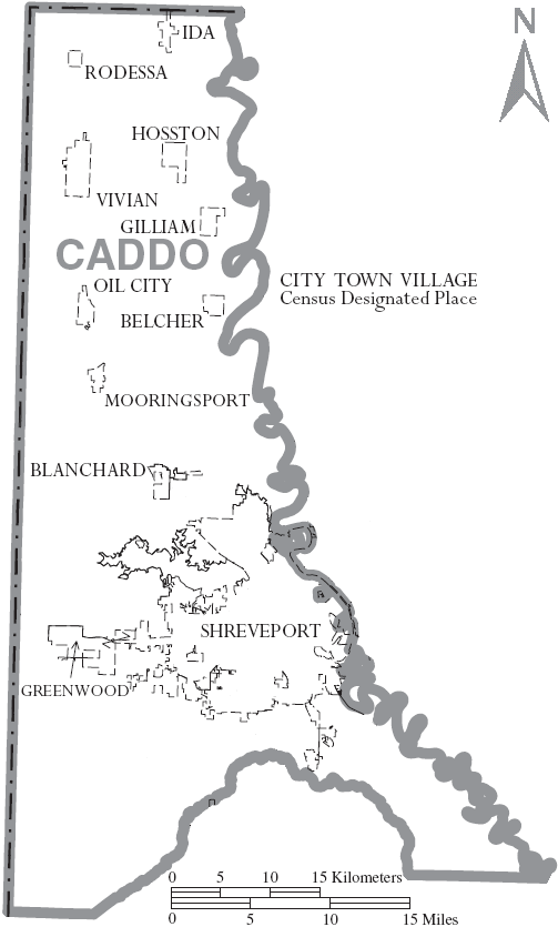 Map of Caddo Parish, Louisiana, United States with municipal boundaries